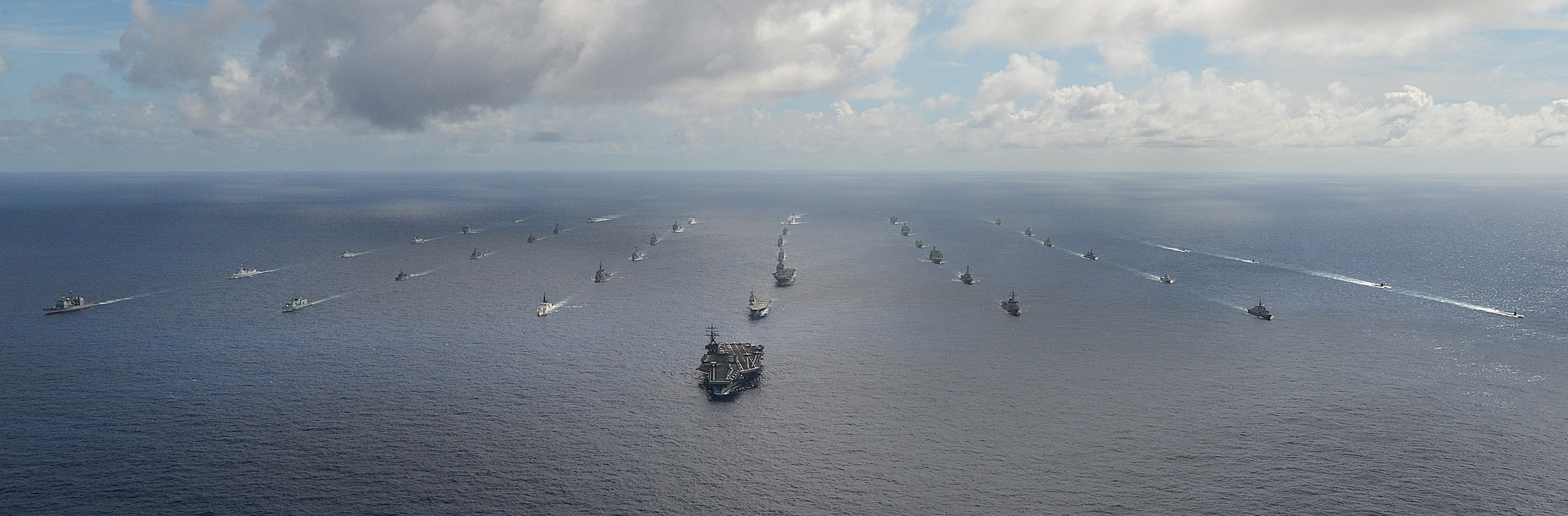 July 25, 2014 Forty-two ships and submarines representing 15 international partner nations ¨steam¨ in close formation during Rim of the Pacific (RIMPAC) Exercise 2014.